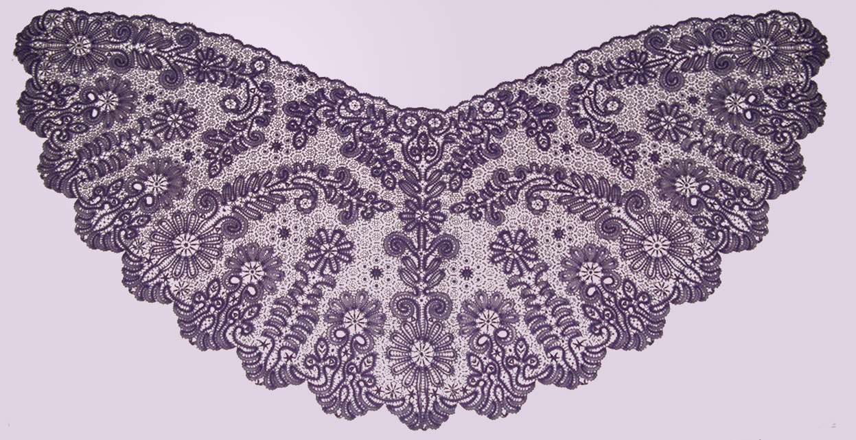 lace shawl